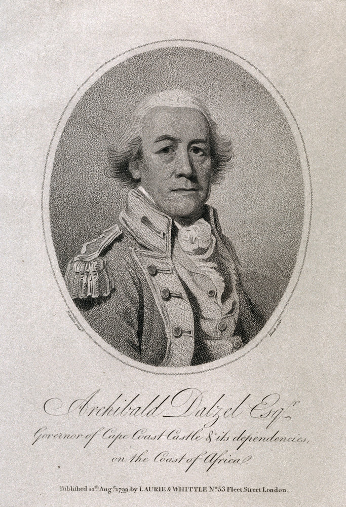 Archibald Dalzel Governor of the Gold Coast by Johann Eckstein 1799